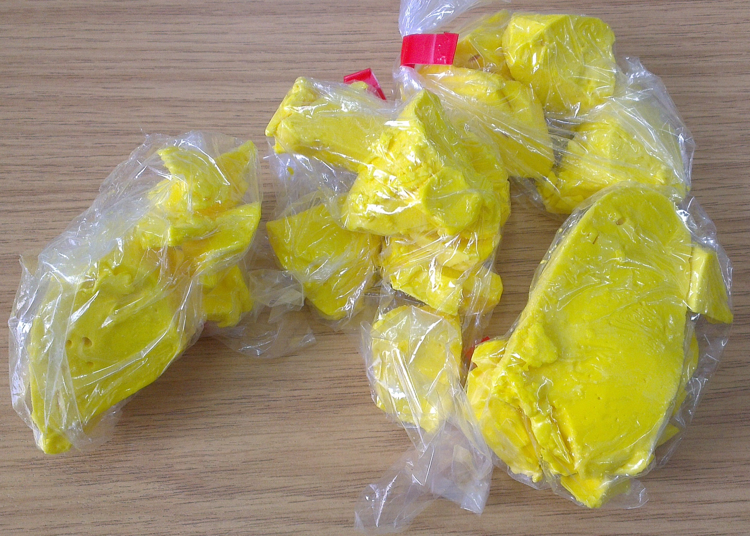 Smalled bagged portions of Northern Irish Yellowman Candy, as purchased at Lammas Fair.